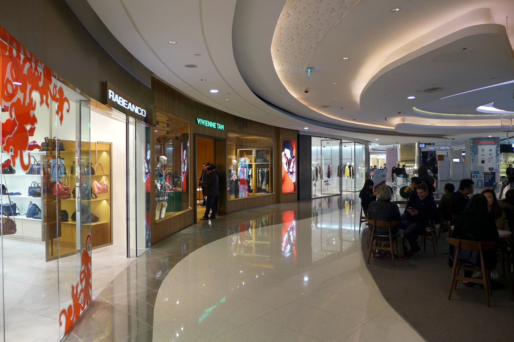 Hysan Place Level 3